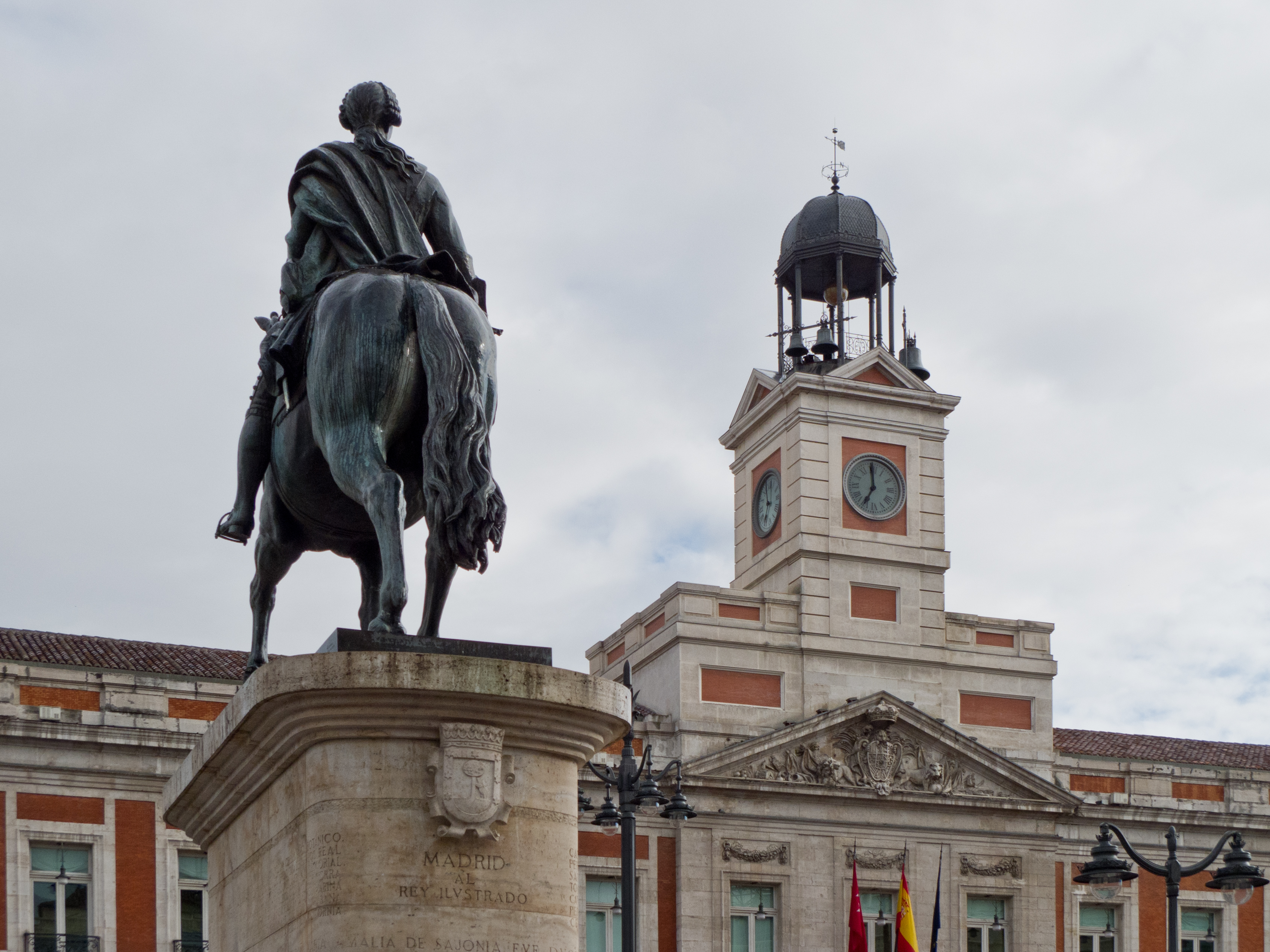 Statue of Charles III of Spain with the Royal Mail House in the background, Madrid, Spain.